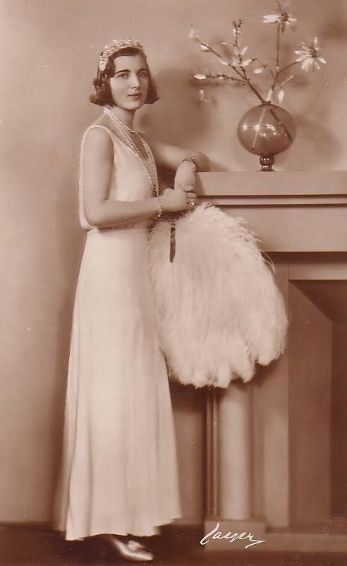 Queen Ingrid of Denmark (1910-2000) portrayed with the cartier diadem